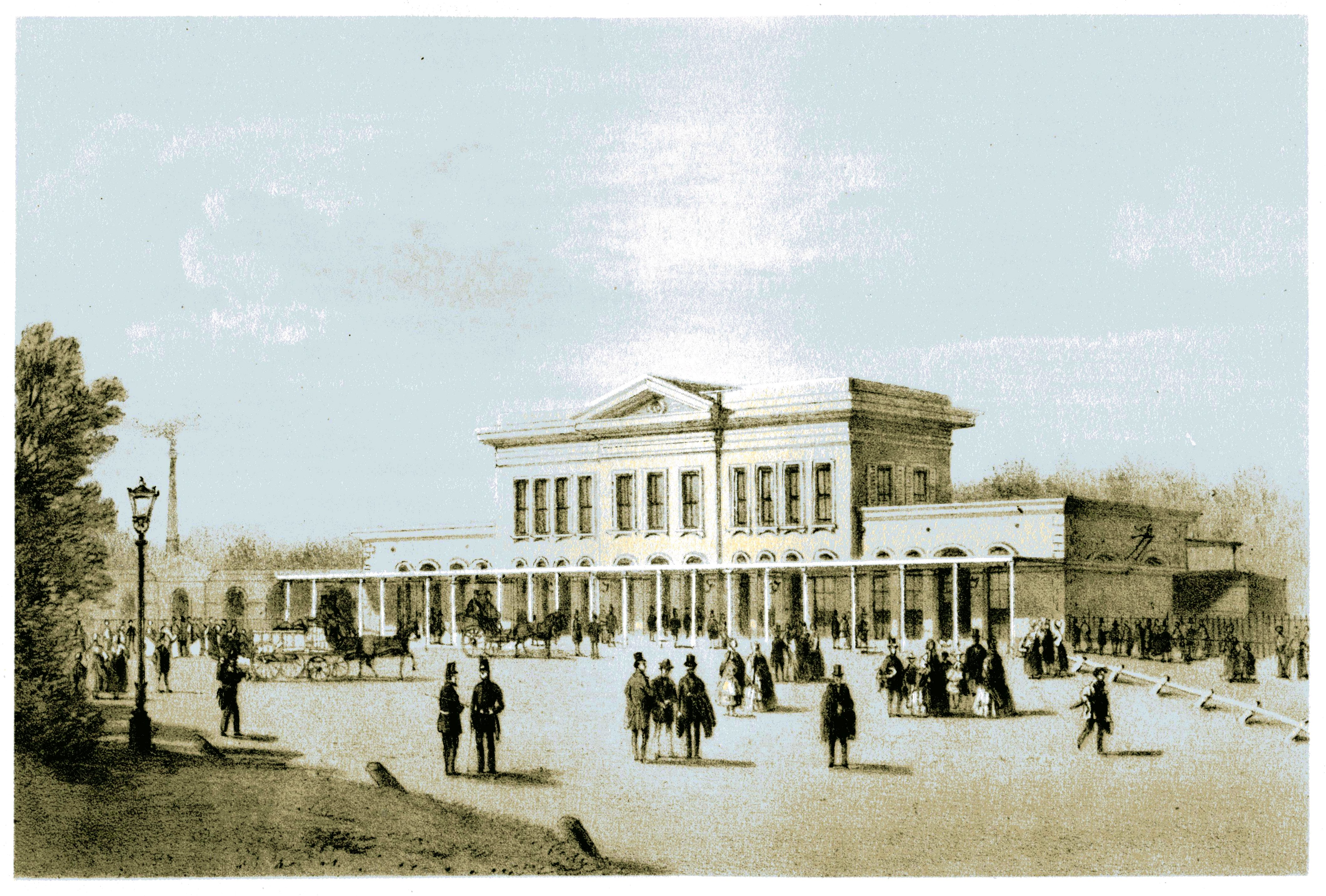 Station Utrecht Rhijnspoorweg, from: Dr. Wap, De stad Utrecht: Album bevattende afbeeldingen harer voornaamste gebouwen en gezigtspunten met historische bijschriften (Broese Utrecht 1859-60)